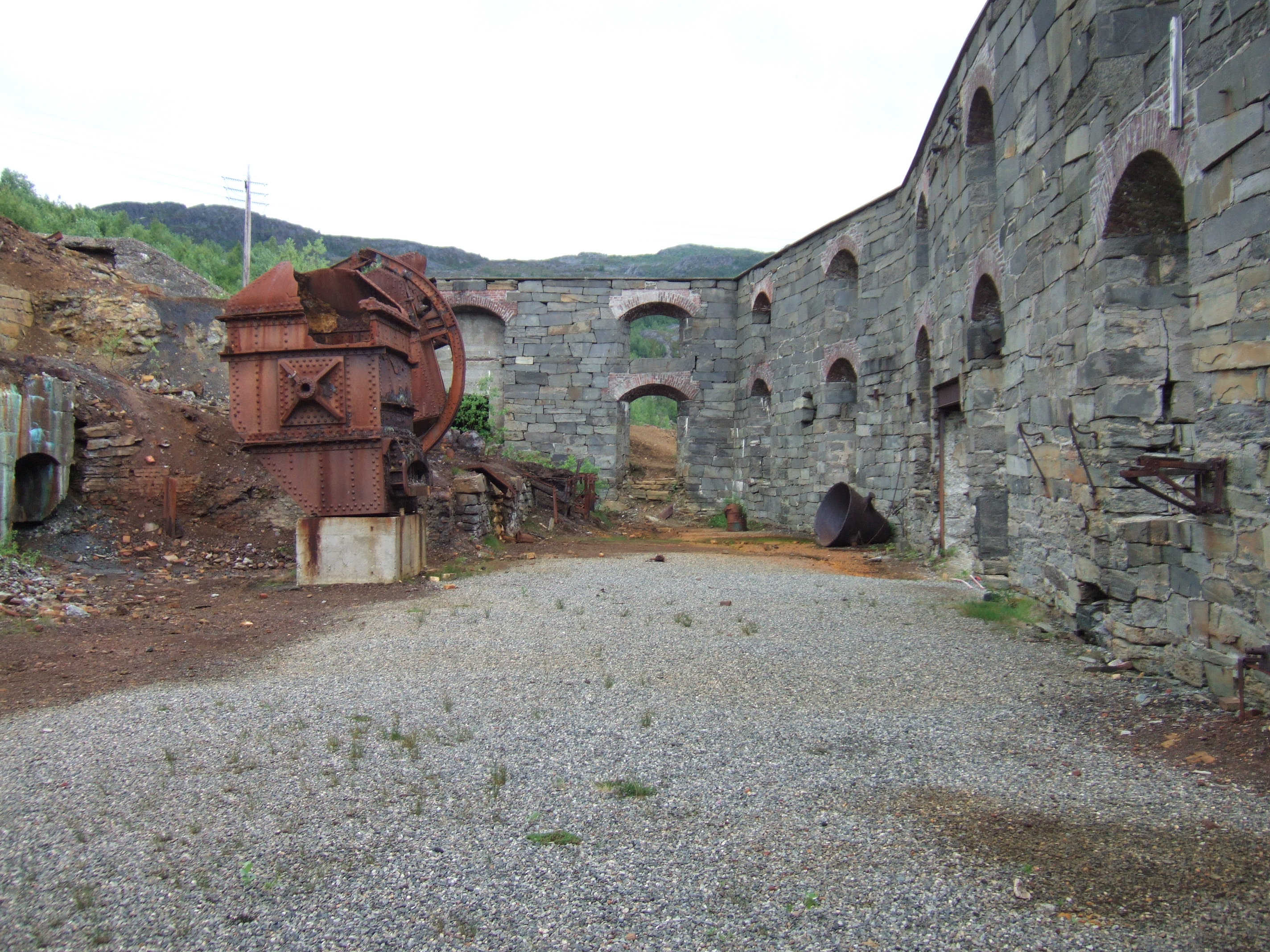 The ruins of the old smelting plant in Sulitjelma, Fauske, Nordland, Norway.